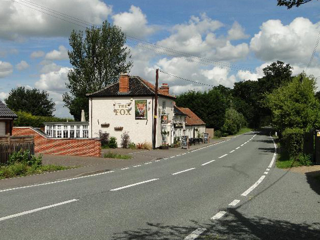 The Shadingfield Fox public house in 2010 alongside the A145 road.